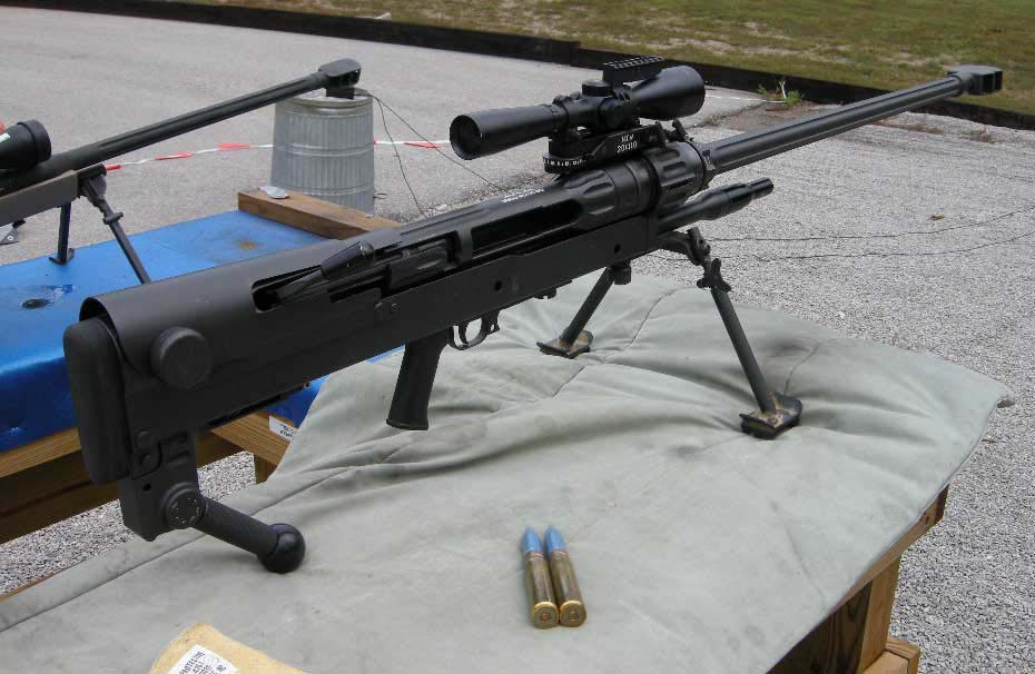 South African DENEL 20X110HS NTW-20 Rifle procured for evaluation in the United States